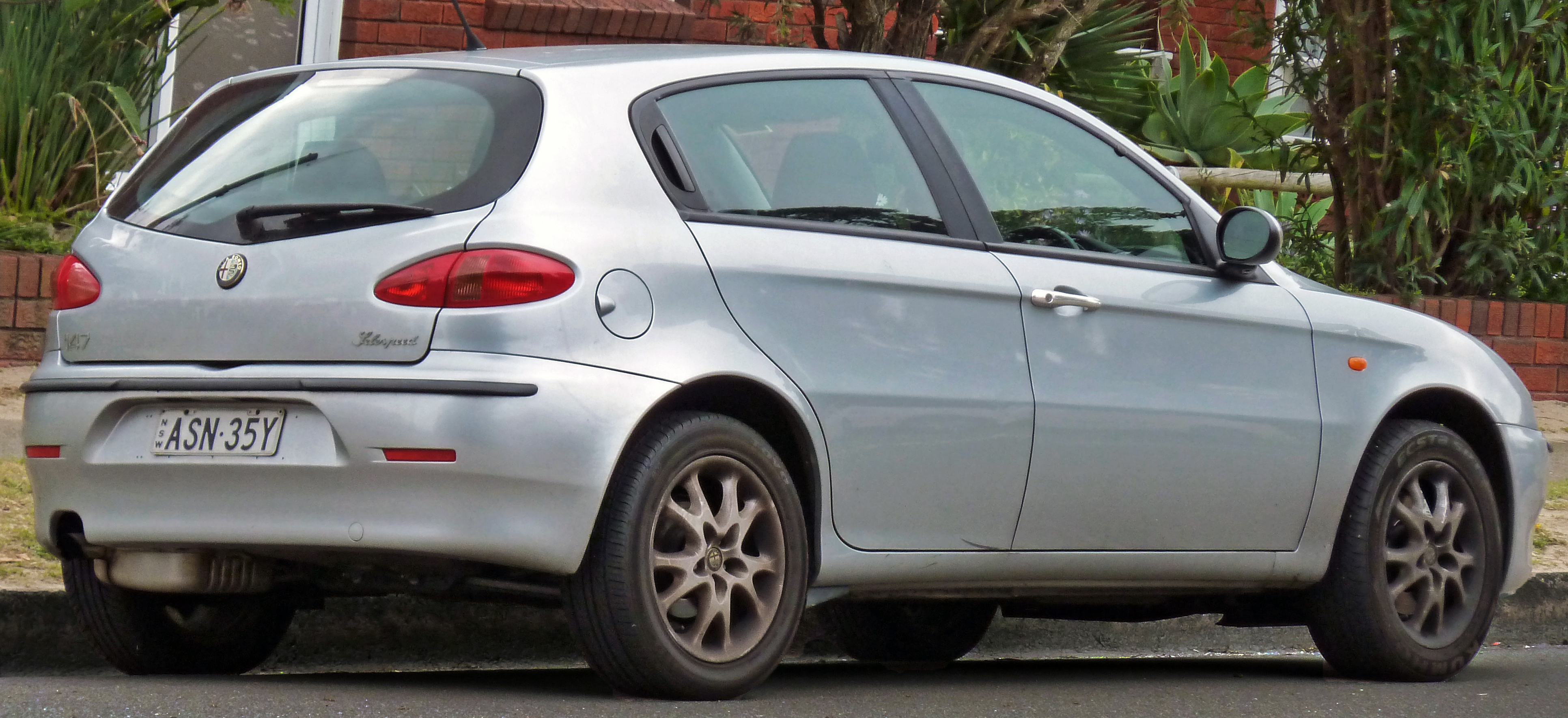 2004 Alfa Romeo 147 Selespeed Twin Spark 5-door hatchback. Photographed in Sandringham, New South Wales, Australia.